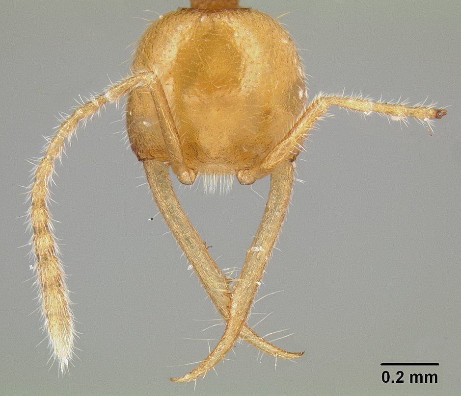 Martialis heureka Specimen Code: CASENT0106181 Locality: Brazil: Amazonas: Embrapa, km 28, hwy AM010, 30km Manaus; 02°53'00"S 059°59'00"W 40-50 m Collection Information: Collection codes: CR030509-01 Collected by: C. Rabeling Habitat: primary lowland rainforest Date Collected: 9 May 2003 Method: ex leaf litter at dusk Specimen Information: Life Stage: 1w Located at: ATOL voucher MZSP Owned by: MZSP Type Status: holotype